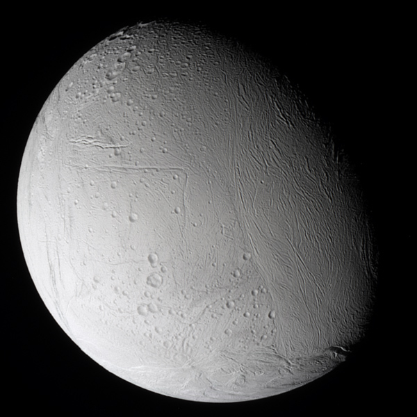 Composite image of Enceladus taken by Cassini's narrow-angle camera on March 9, 2005 during approach for a close flyby. Distance at the time was about 144 000 km and phase angle was 48 degrees. Frames taken through infrared, green and ultraviolet filters were processed to better match natural color appearance. Image was rotated so that north on Enceladus is up.